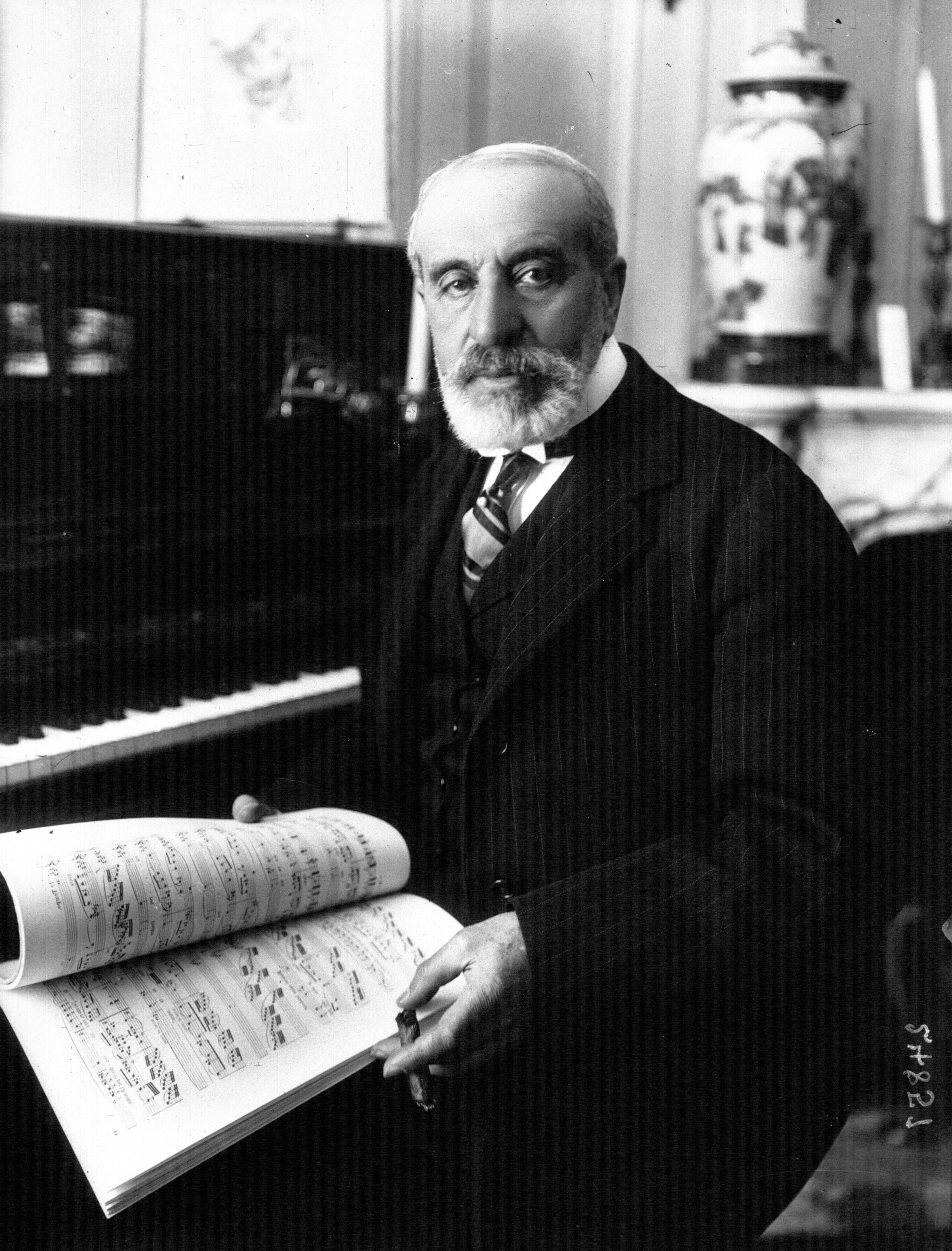 French industrialist Henry Deutsch de la Meurthe (1846-1919).